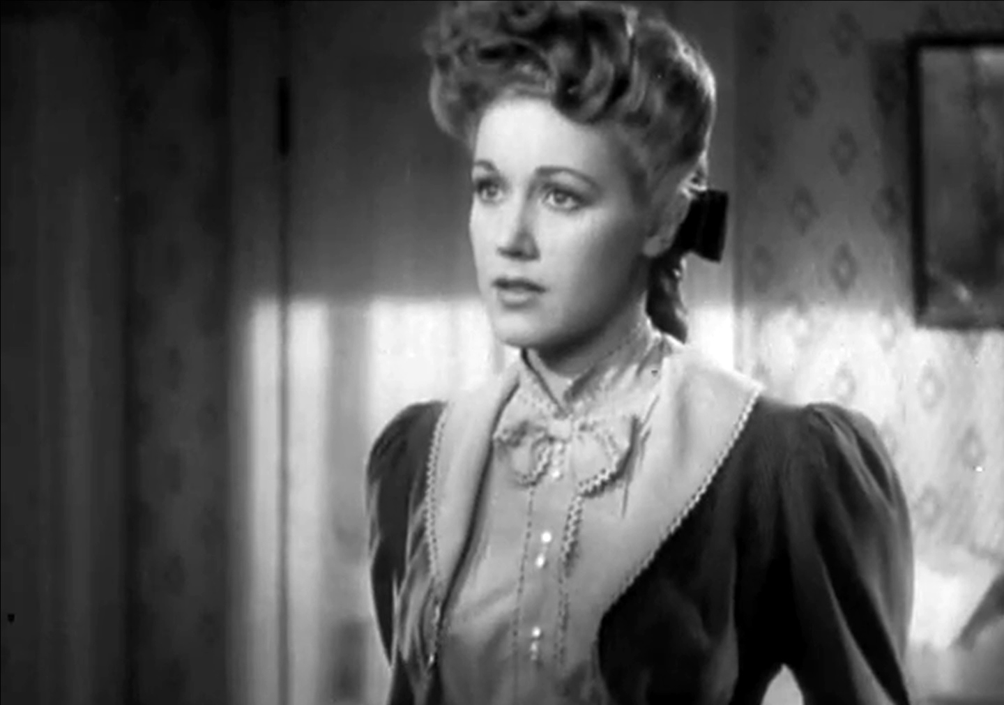 Audrey Long in the 1940 trailer for Tall in the Saddle